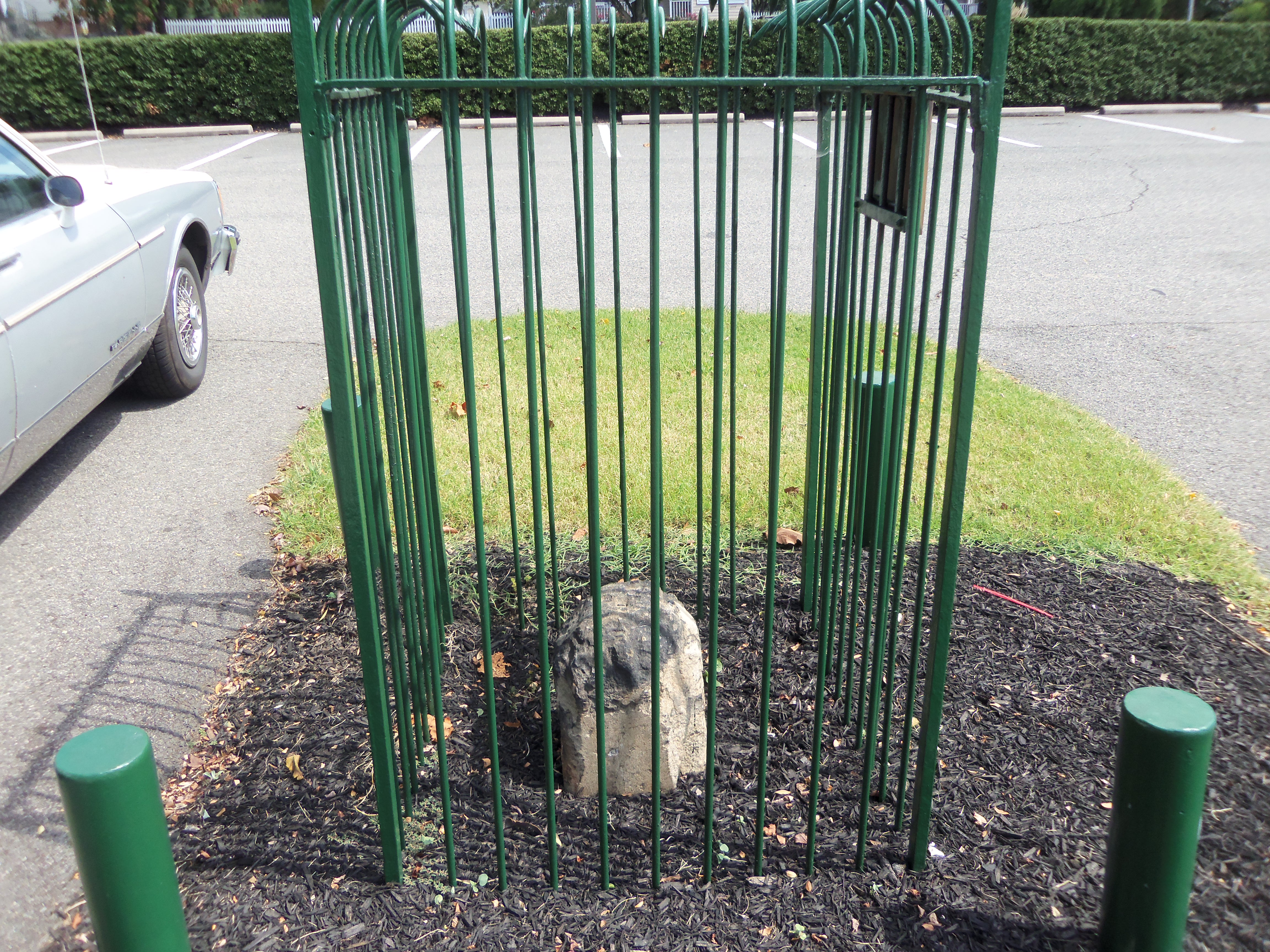 Southwest No. 3 Boundary Marker of the Original District of Columbia. It is located in the parking lot of the First Baptist Church on King Street.